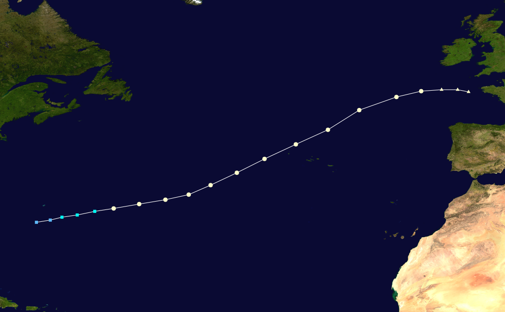 Hurricane Fran (1973) track. Uses the color scheme from the Saffir-Simpson Hurricane Scale.